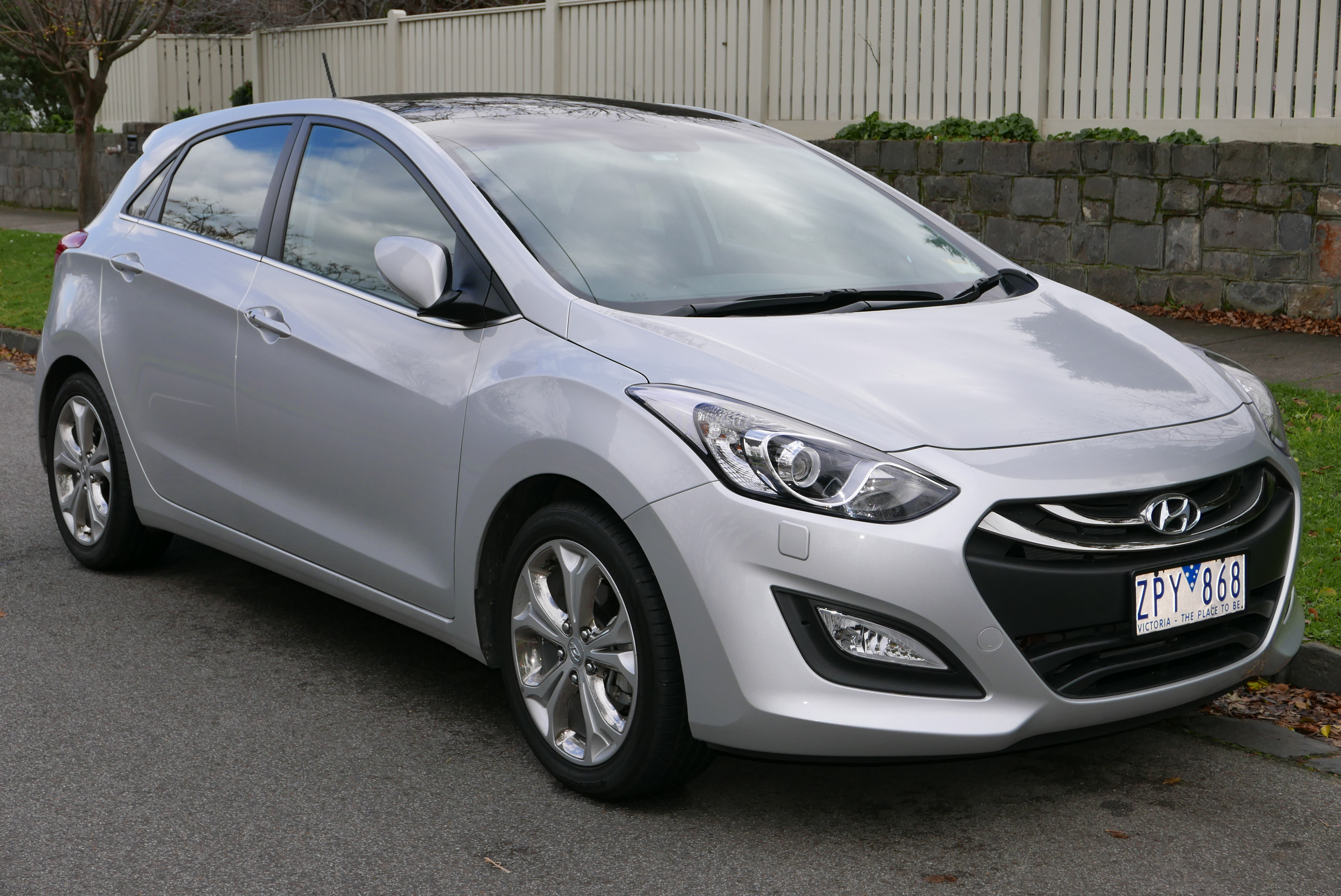 2013 Hyundai i30 (GD MY13) Premium 5-door hatchback. Photographed in Ivanhoe, Victoria, Australia. Vehicle registration enquiry resultsJurisdictionVictoriaRegistrationZPY868Chassis codeKMHD351EMDU072940Engine codeG4NBCU342163Compliance date2013-02Year of manufacture2013